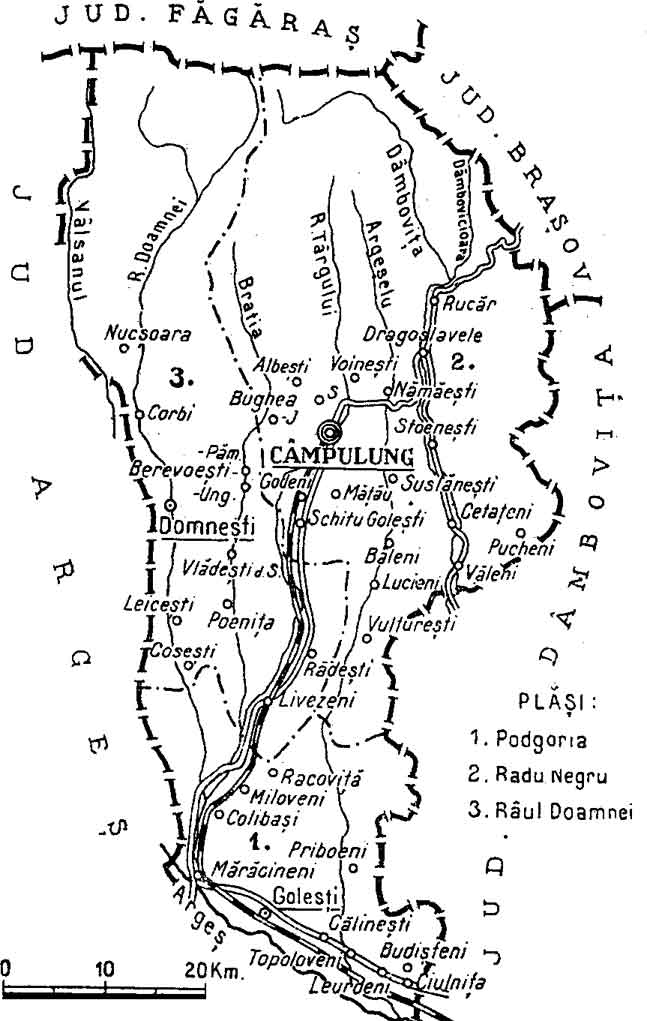 Map of Muscel interwar county, Kingdom of Romania (1938).